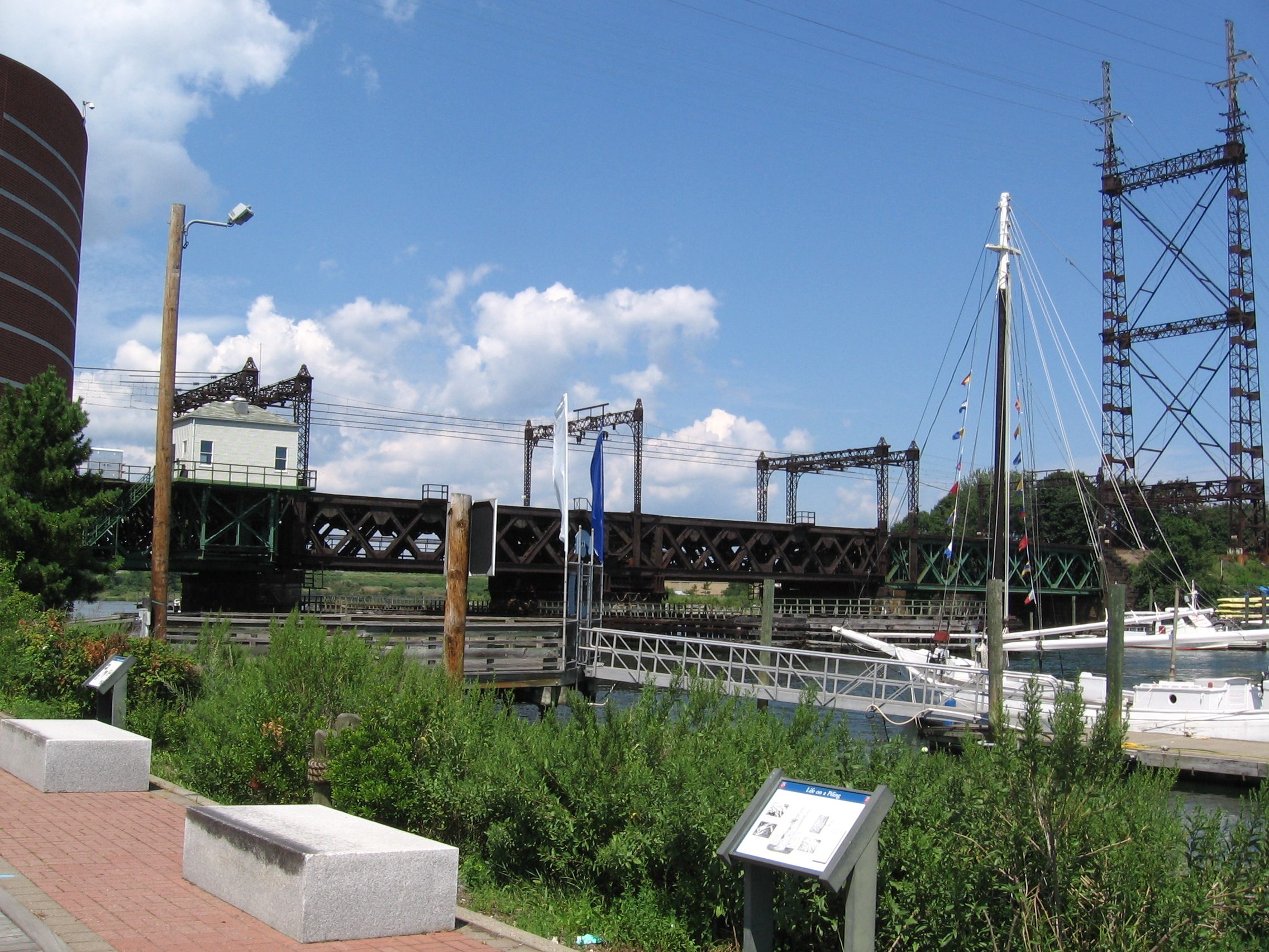 Norwalk River railroad bridge in the South Norwalk section of Norwalk, Connecticut. The picture was taken from the South Norwalk side of the river (on the west bank), looking north at the bridge. The edge of the IMAX theater at the Maritime Aquarium of Norwalk can be seen on the left. It appears that the "transferred by bot" notification was triggered by an admin-authorized bot used to automate time-consuming and repetitive tasks; thus there is no objection to putting the image in Commons.